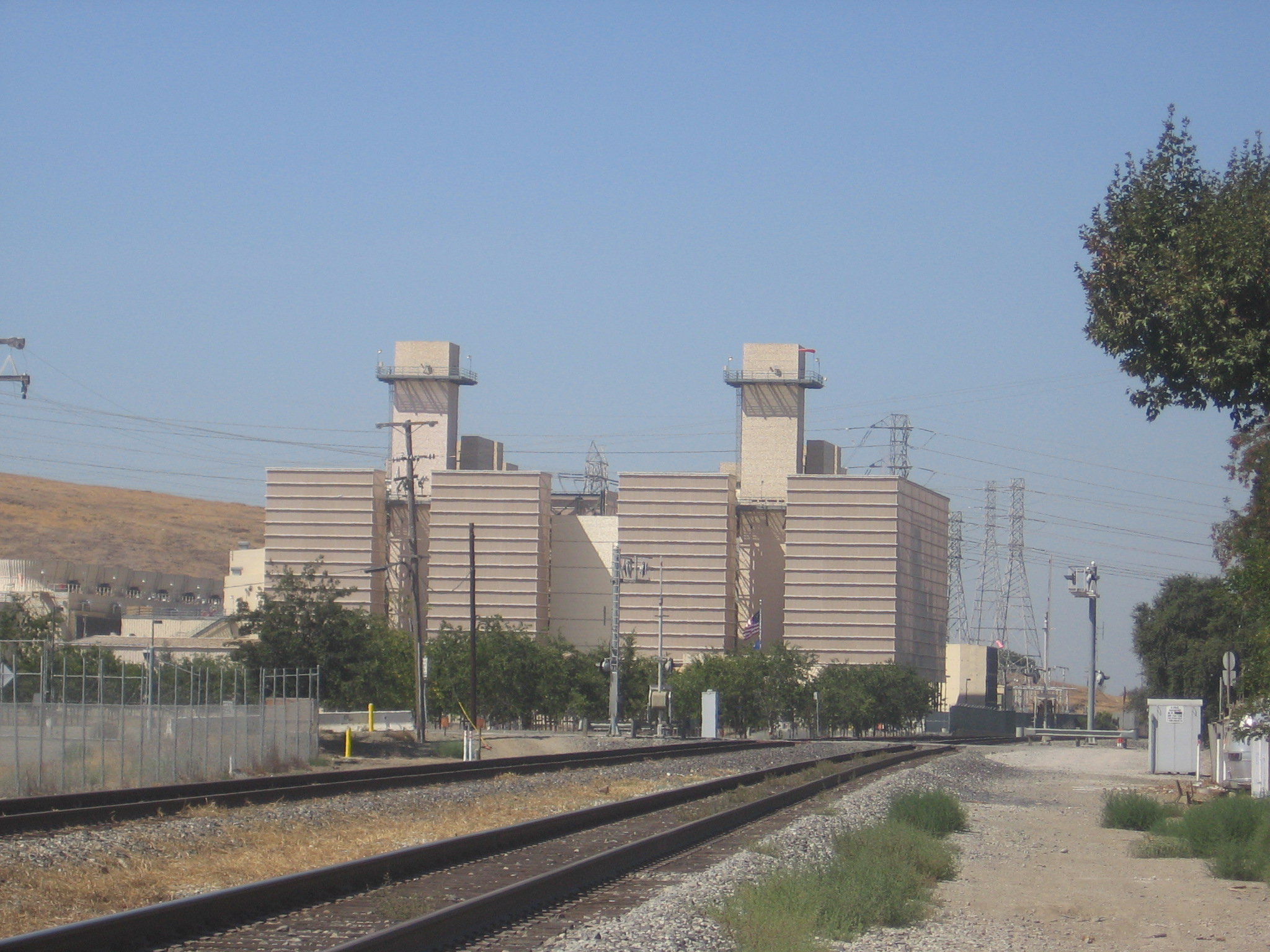 The Metcalf Energy Center - a natural gas fired electric plant along the Monterey Road and Caltrain in Coyote, California. View is looking northwest.